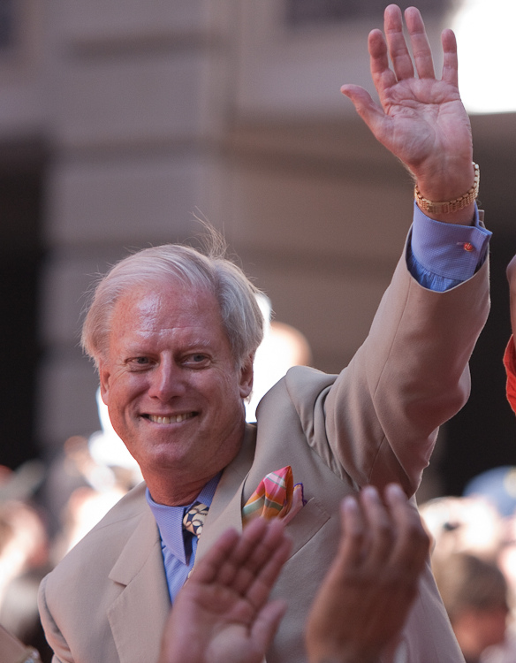 He kept the Giants in San Francisco